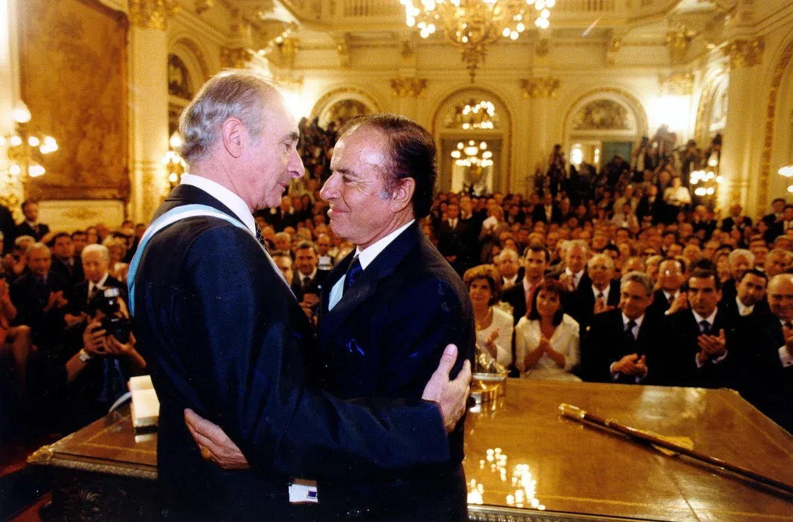 BUENOS AIRES- ASUME COMO PRESIDENTE DE LA NACION, EL DR. FERNANDO DE LA RUA. (SPYD 10-12-99)